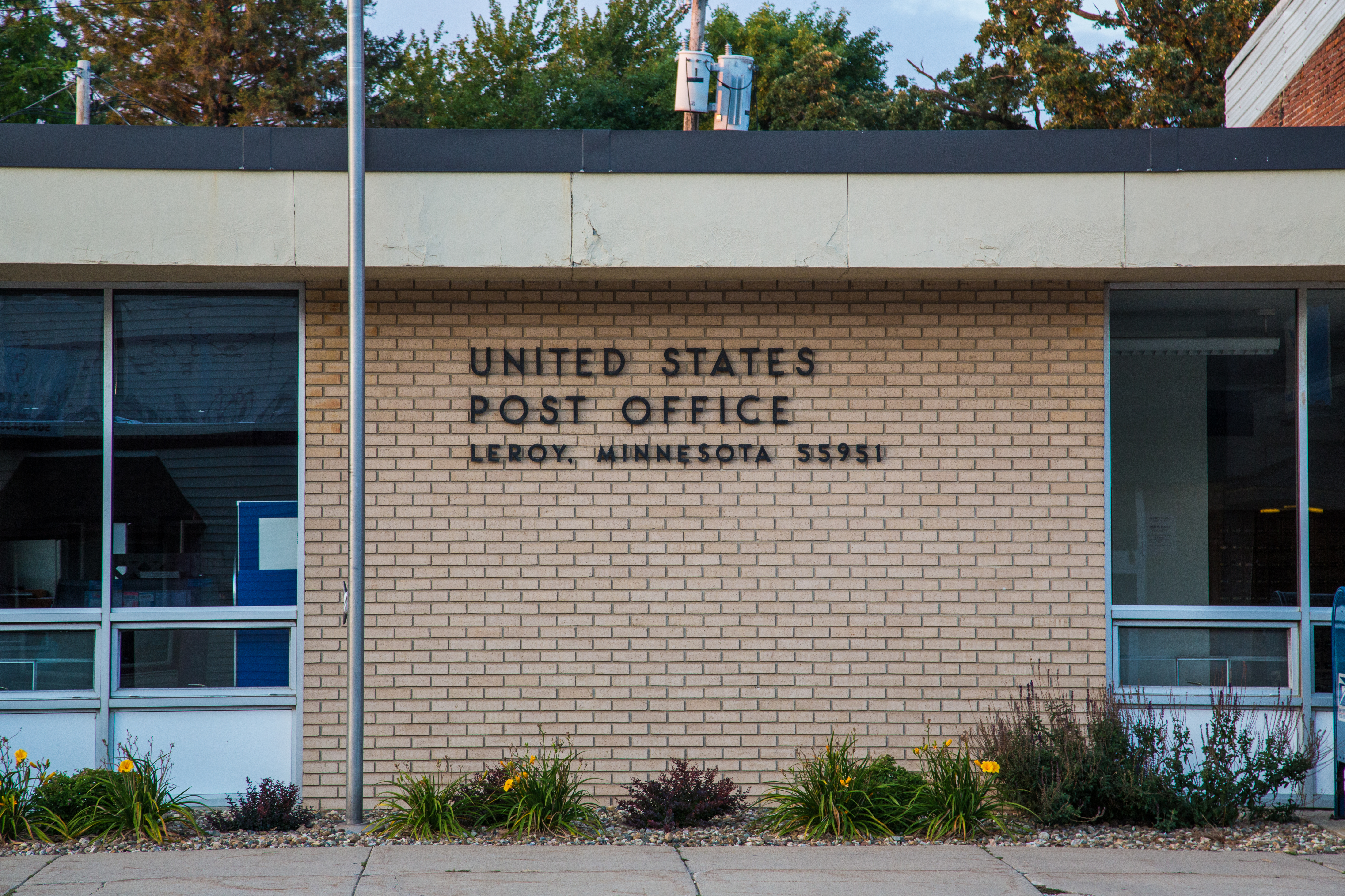 The United States Post Office in LeRoy (Le Roy), Minnesota 55951